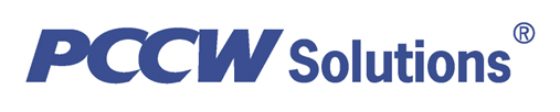 PCCW Solutions Logo in English